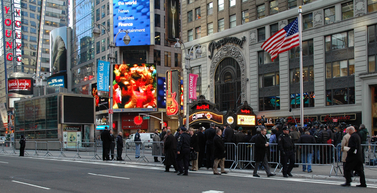 NEW YORK (March 6, 2008) An improvised explosive device blasted the entrance to the U.S. Armed Forces Career Center, a joint-service recruiting station located in Times Square at approximately 3:45 a.m. The blast caused no injuries; however, glass in the office's front door and window was shattered by the explosion, and the door's metal frame was bent. One of the busiest recruiting stations in the nation, the recruiting office is singularly located on a triangular island in the center of the iconic Manhattan intersection and has been the site of periodic anti-war protests.